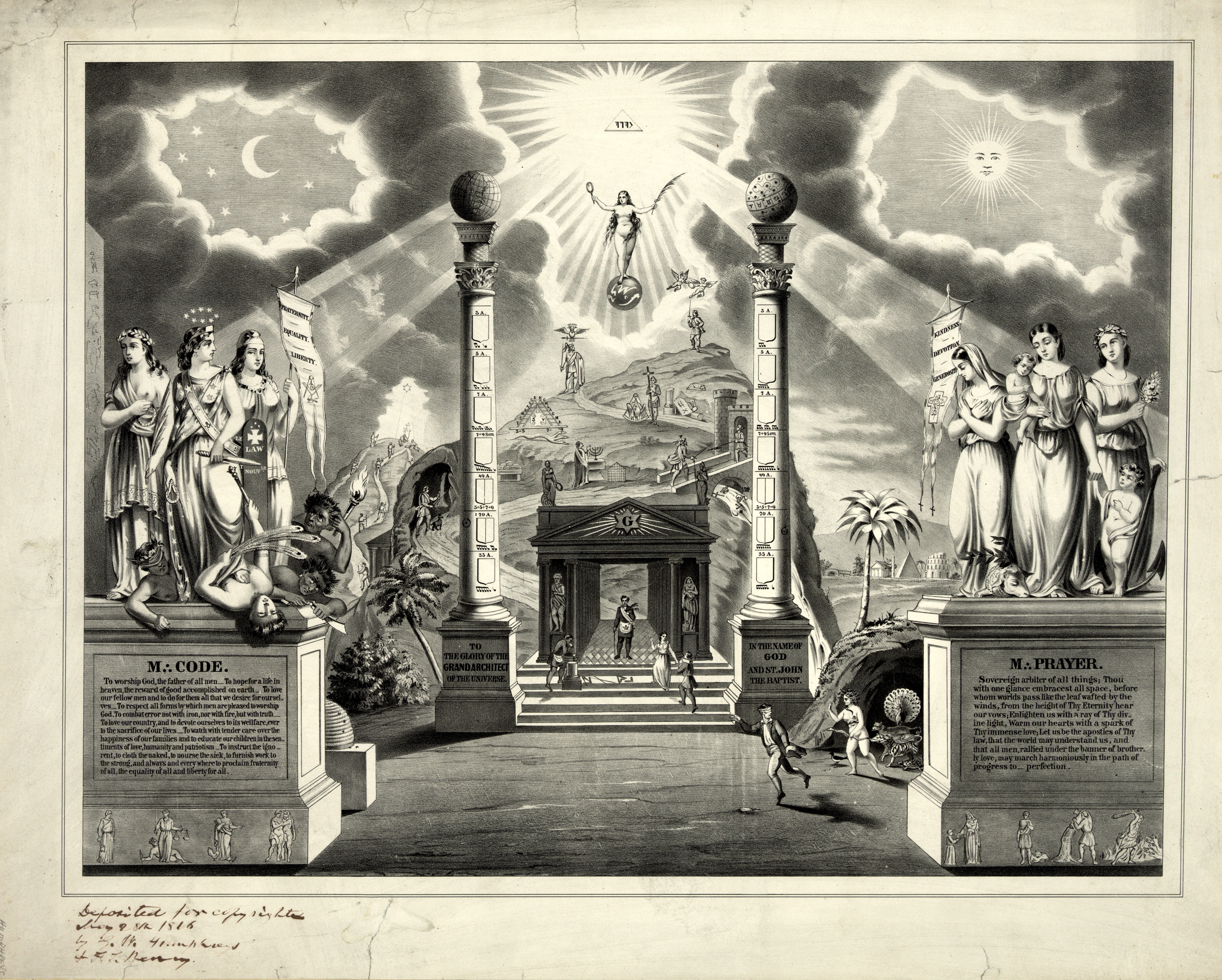 Poster art of a Masonic chart.